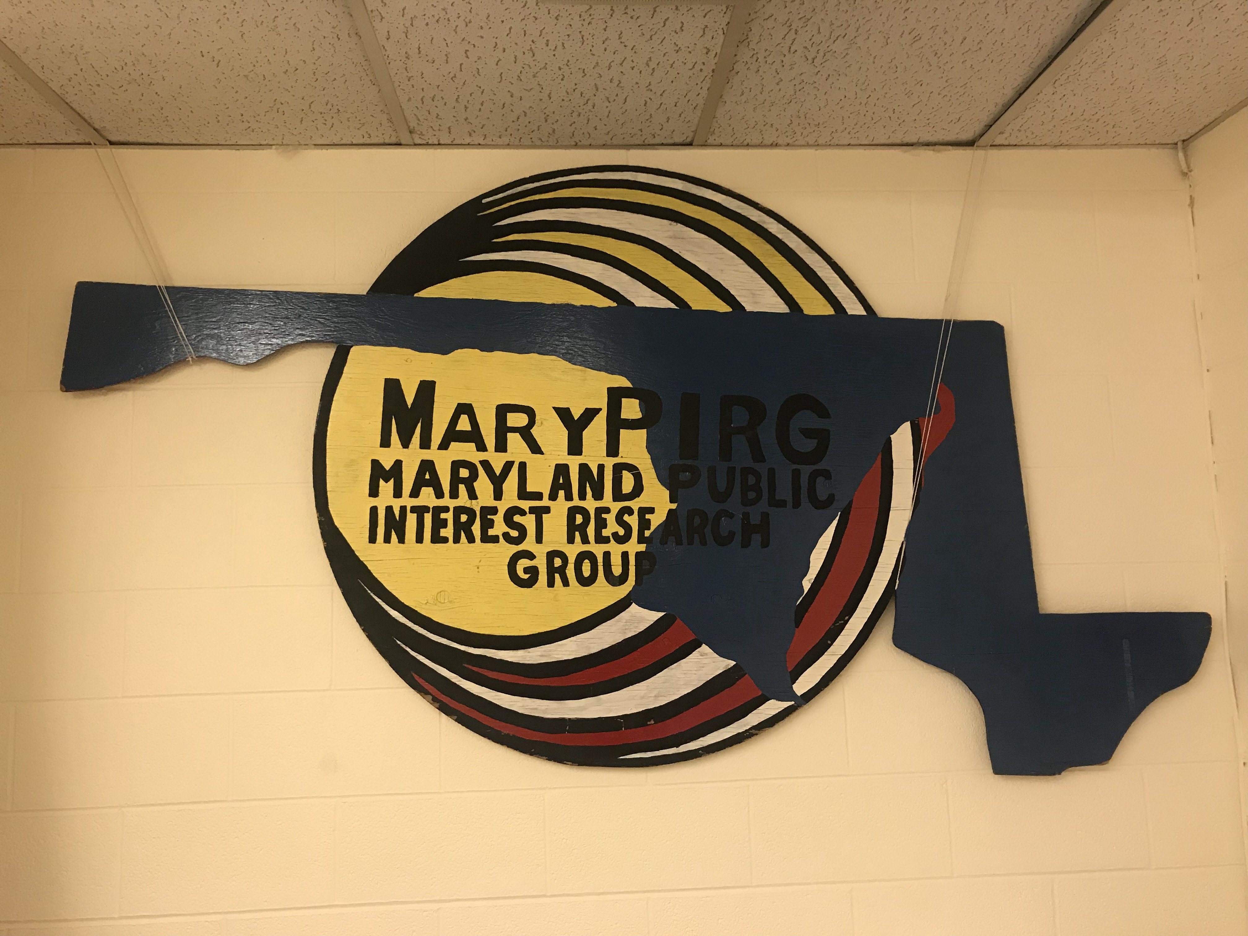 MaryPIRG logo sign in University of Maryland office.